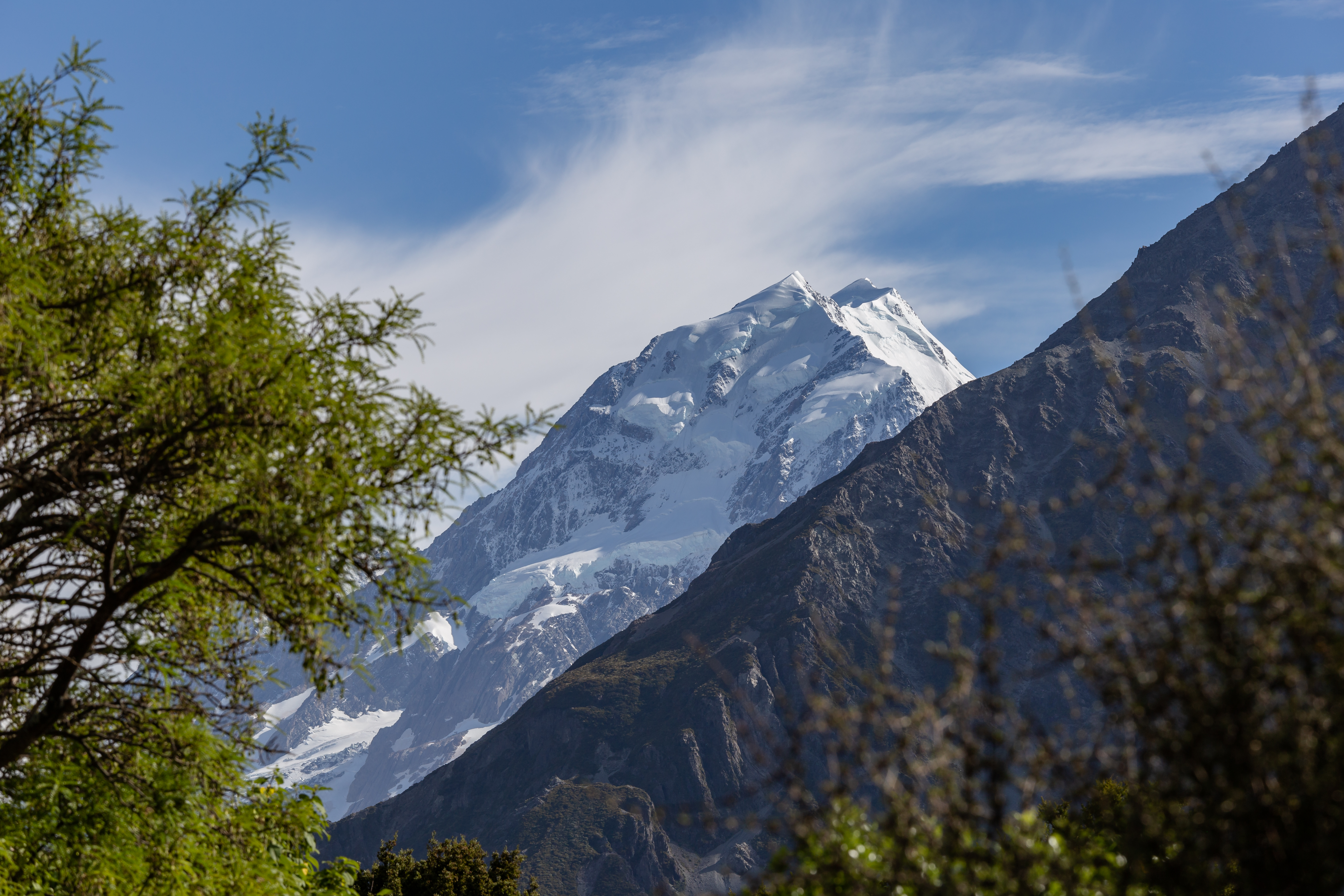 Aoraki, Aoraki/Mount Cook National Park, New Zealand